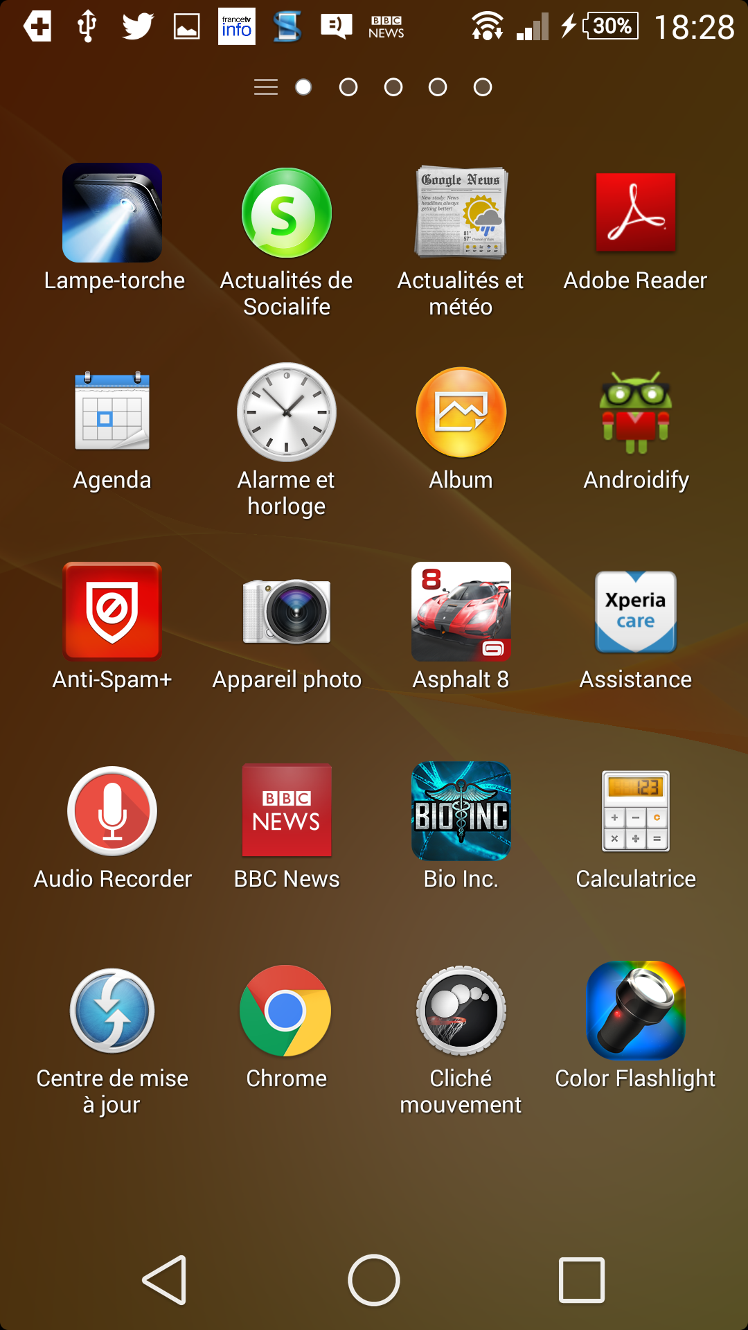 Ecran d'accueil avec toutes les applis du Sony Xperia Z1 sous Androïd 4.4